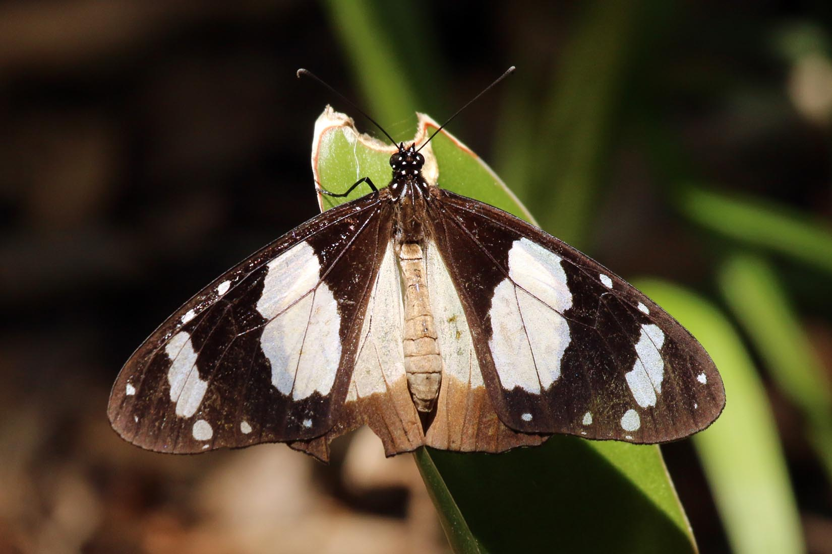 Novice butterfly (Amauris ochlea) female, Mabibi, KwaZulu Natal, South Africa